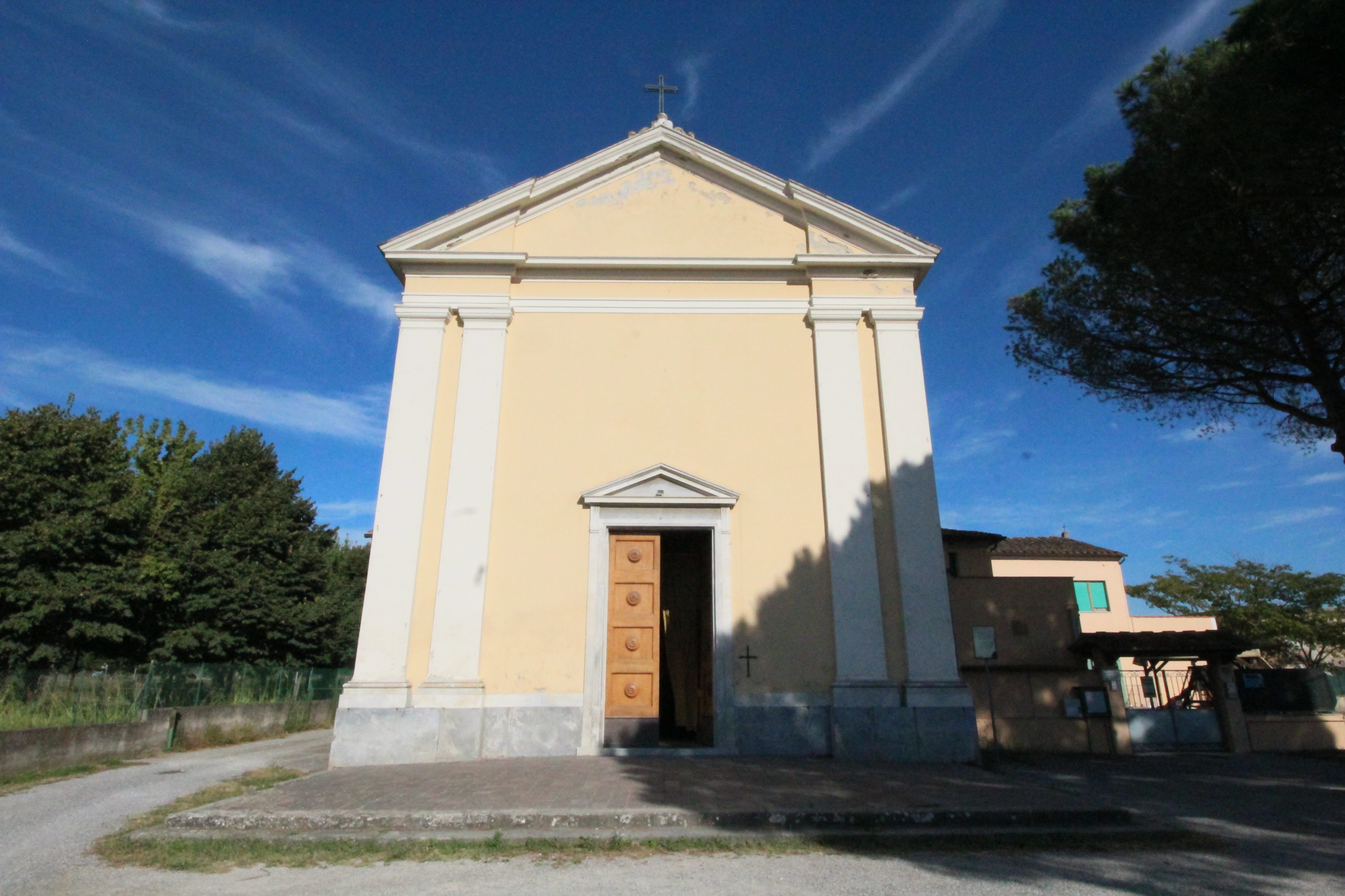 San Benedetto a Settimo, Church in San Benedetto, hamlet of Cascina, Province of Pisa, Tuscany, Italy